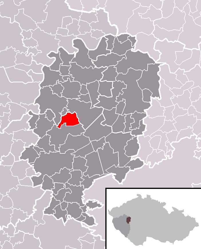 Location of Březina municipality within Rokycany District and within identical administrative area of Rokycany as a Municipality with Extended Competence.